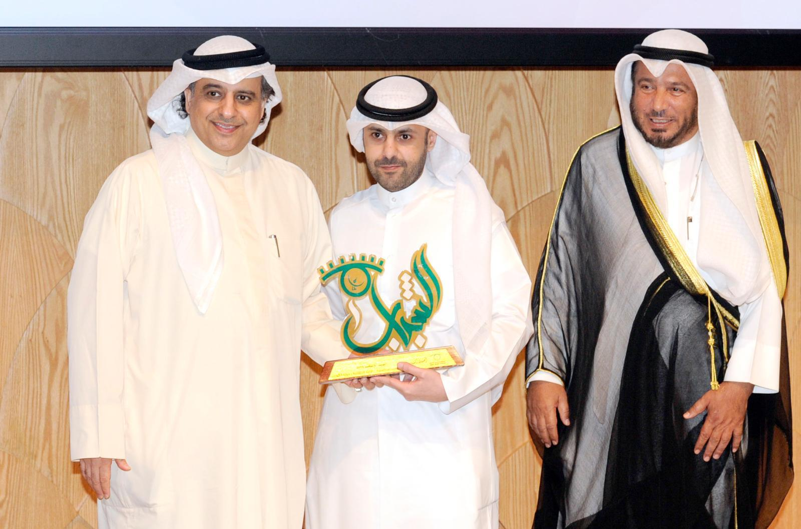 Al-Salloum receives an award for his accounting techniques in the Youth Volunteer and Humanitarian Forum.